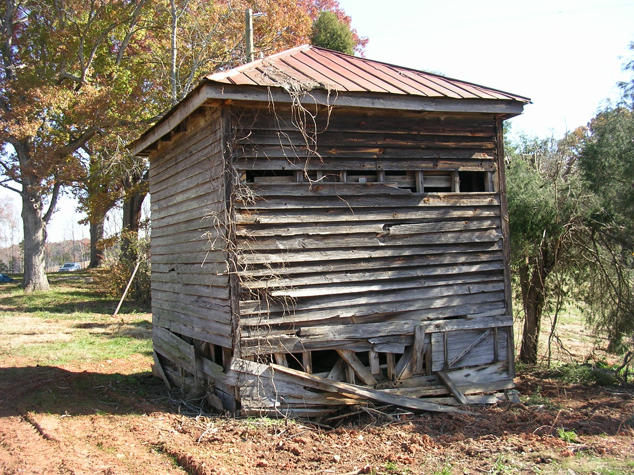 Smokehouse at Annefield, Charlotte County, Virginia c. 2005